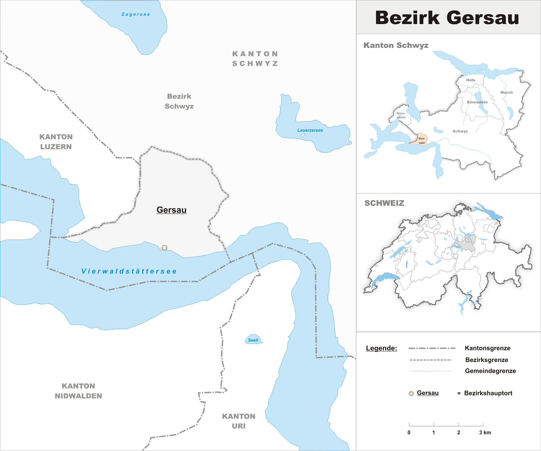 Municipalities in the district of Gersau